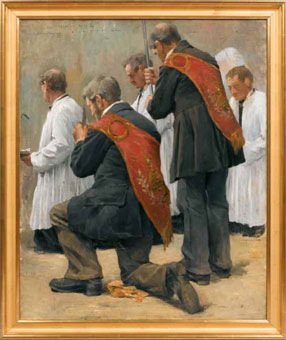 Members of a French "Brotherhood of Charity" take part in a ceremony